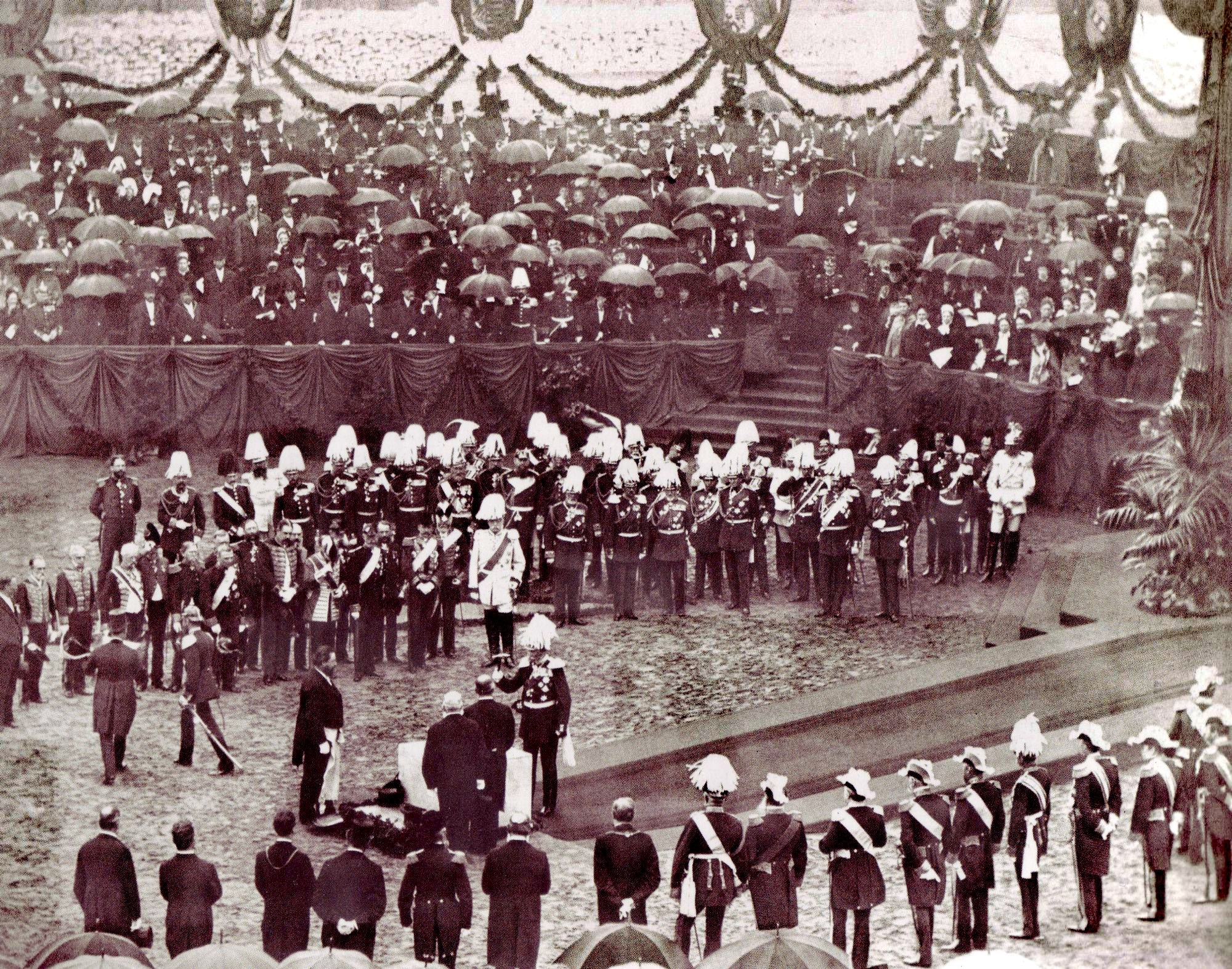 Laying of the foundation stone for the Reichstag building by Emperor Wilhelm I., Berlin 1884